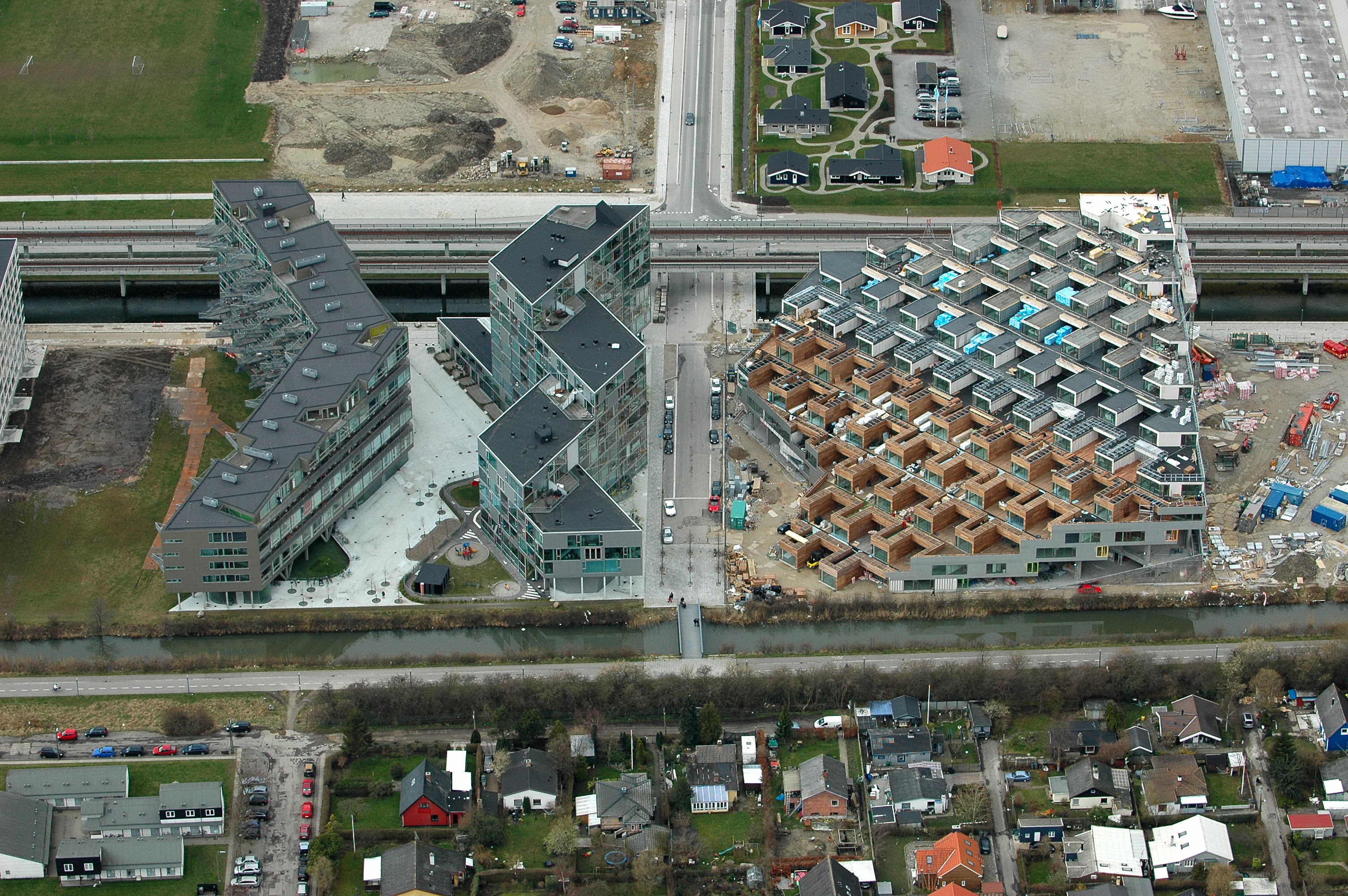 The two PLOT (Bjarke Ingels Group / JDS) Projects VM Houses and Mountain Dwelings in the Ørestad district of Copenhagen, Denmark